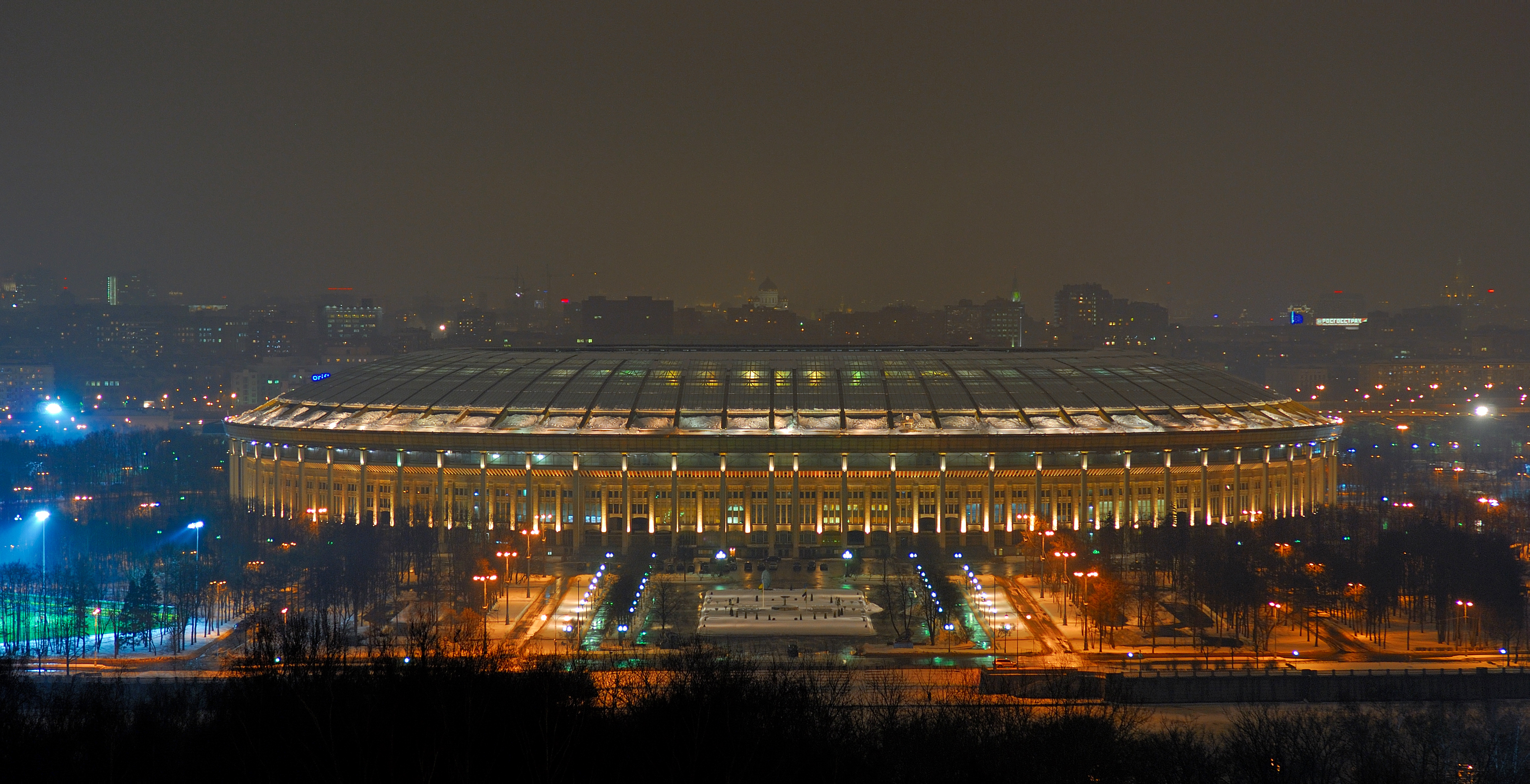 Grand Sports Arena of Luzhniki Stadium